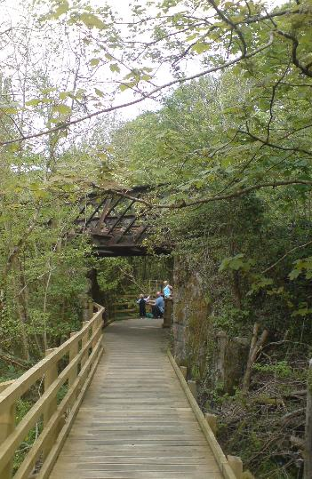 A photo of an Anglesey Central Railway bridge passing through The Dingle, Wales. Taken by cls14 on 7th May 2007.